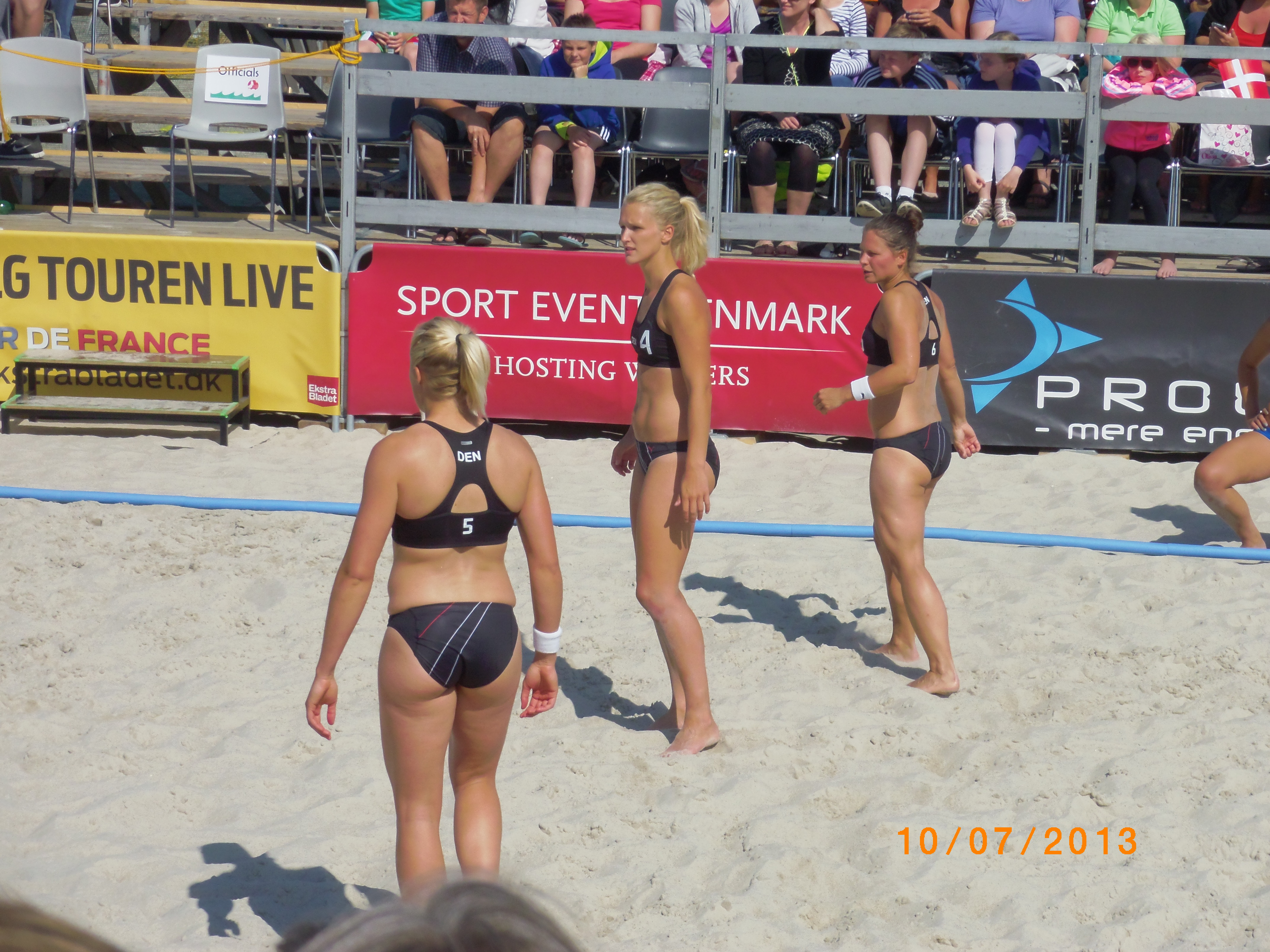 From the match Denmark-Greece (women): Maj Johansen (5), Camilla Fangel (4), Sisse Jongberg (6)